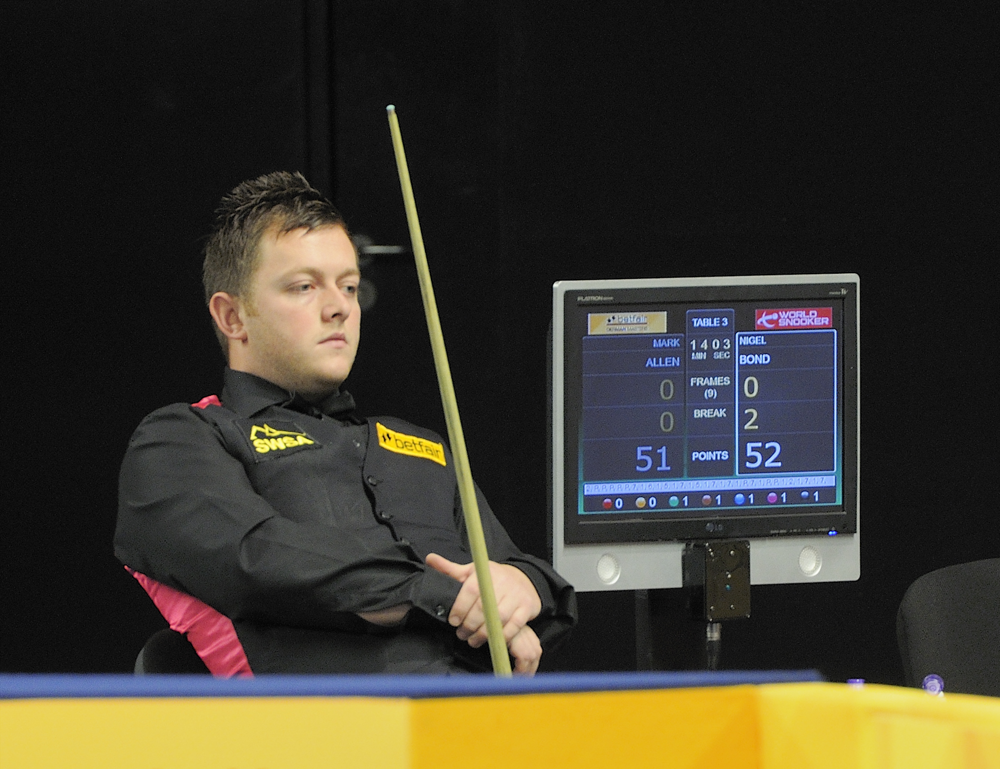 Picture taken in Berlin during the Snooker German Masters in 2013. Mark Allen.